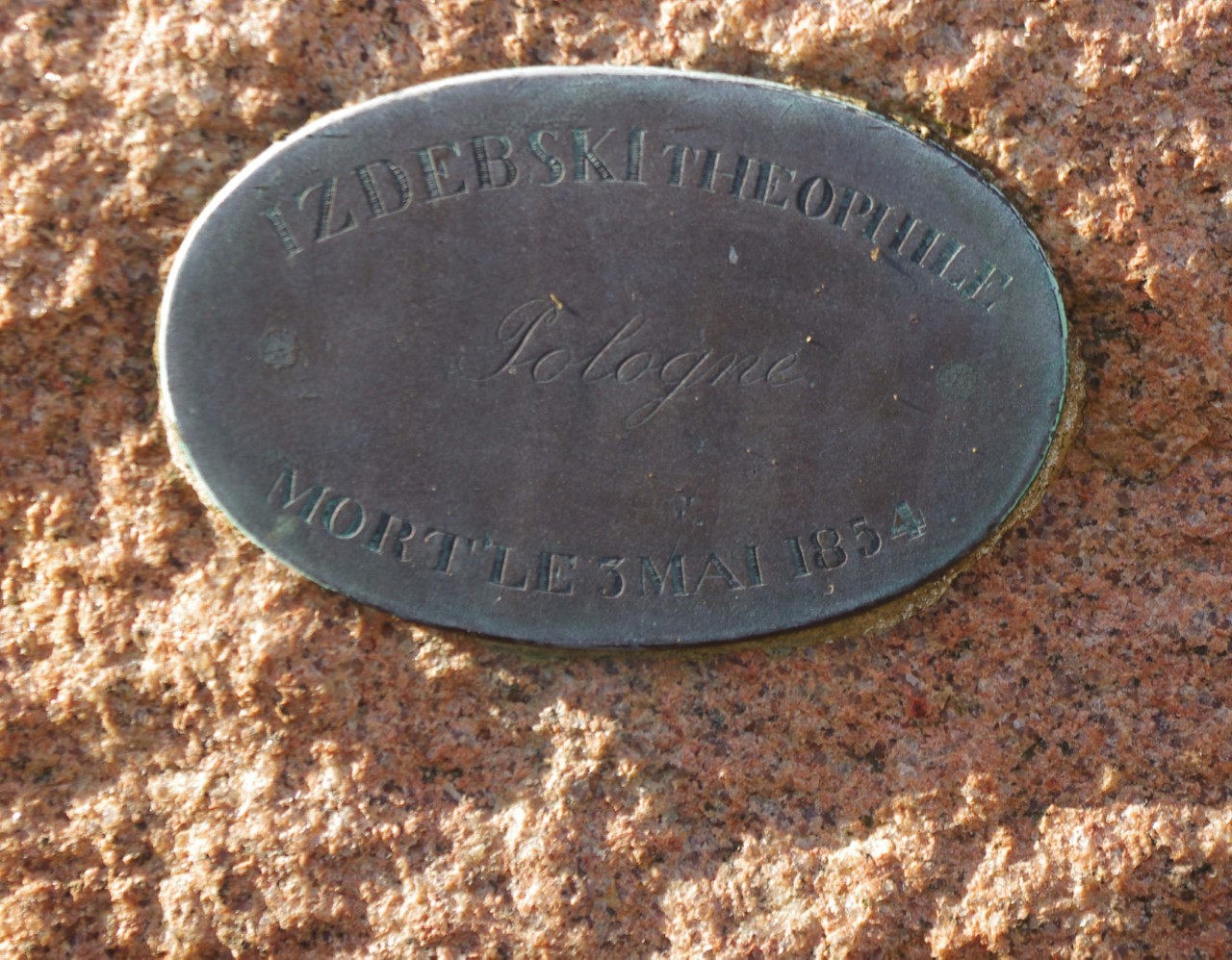 Grave of Theophile Izdebski at Macpela cemetery, St John, Jersey